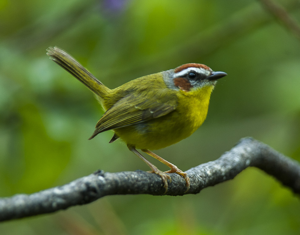 Rufous-capped Warbler - Panama_H8O8781